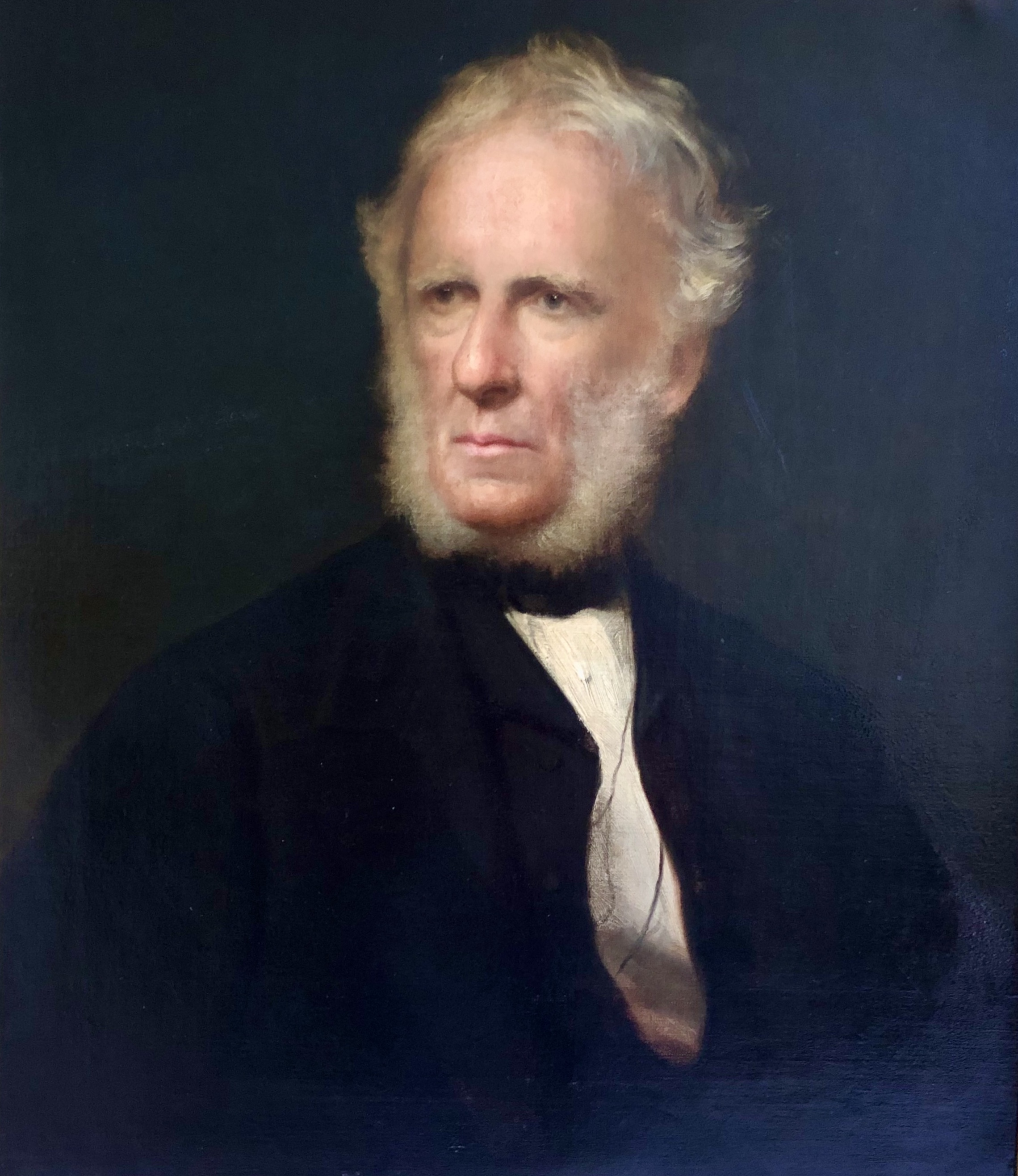 Edmund Potter, oil on canvas portrait by Samuel Sidley